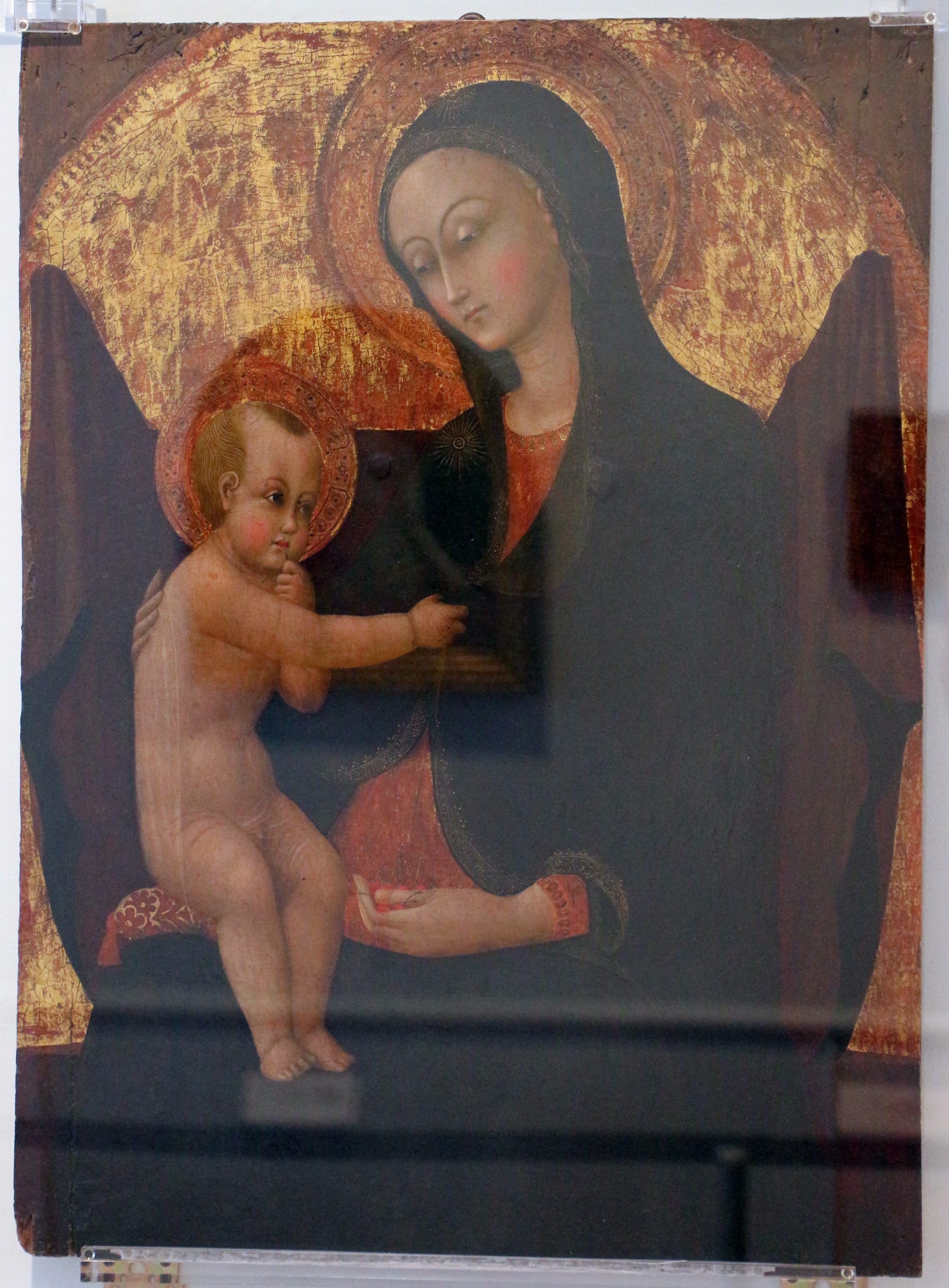 Paintings in the Museo archeologico e d'arte della Maremma